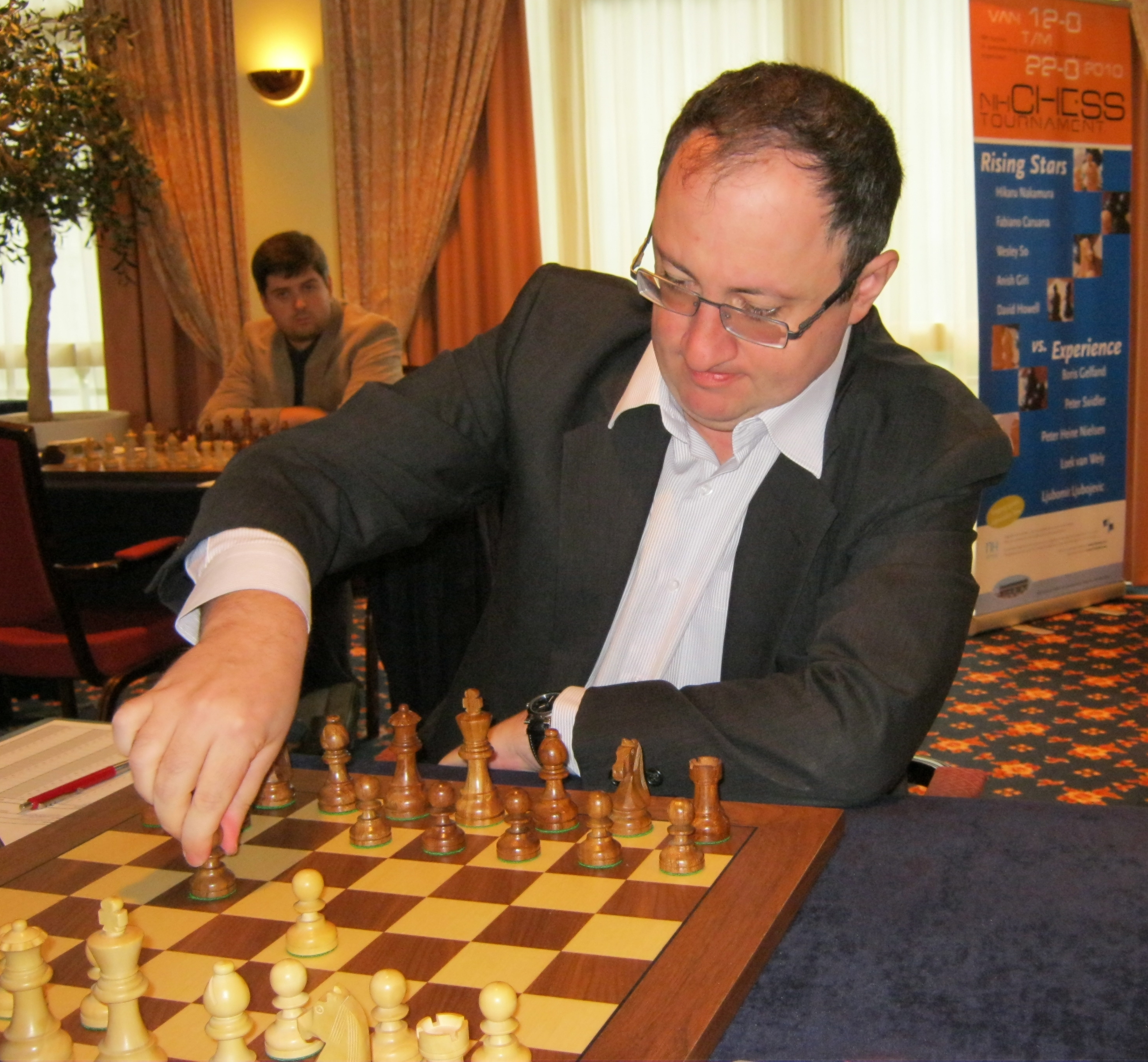 Boris Gelfand, chess grandmaster